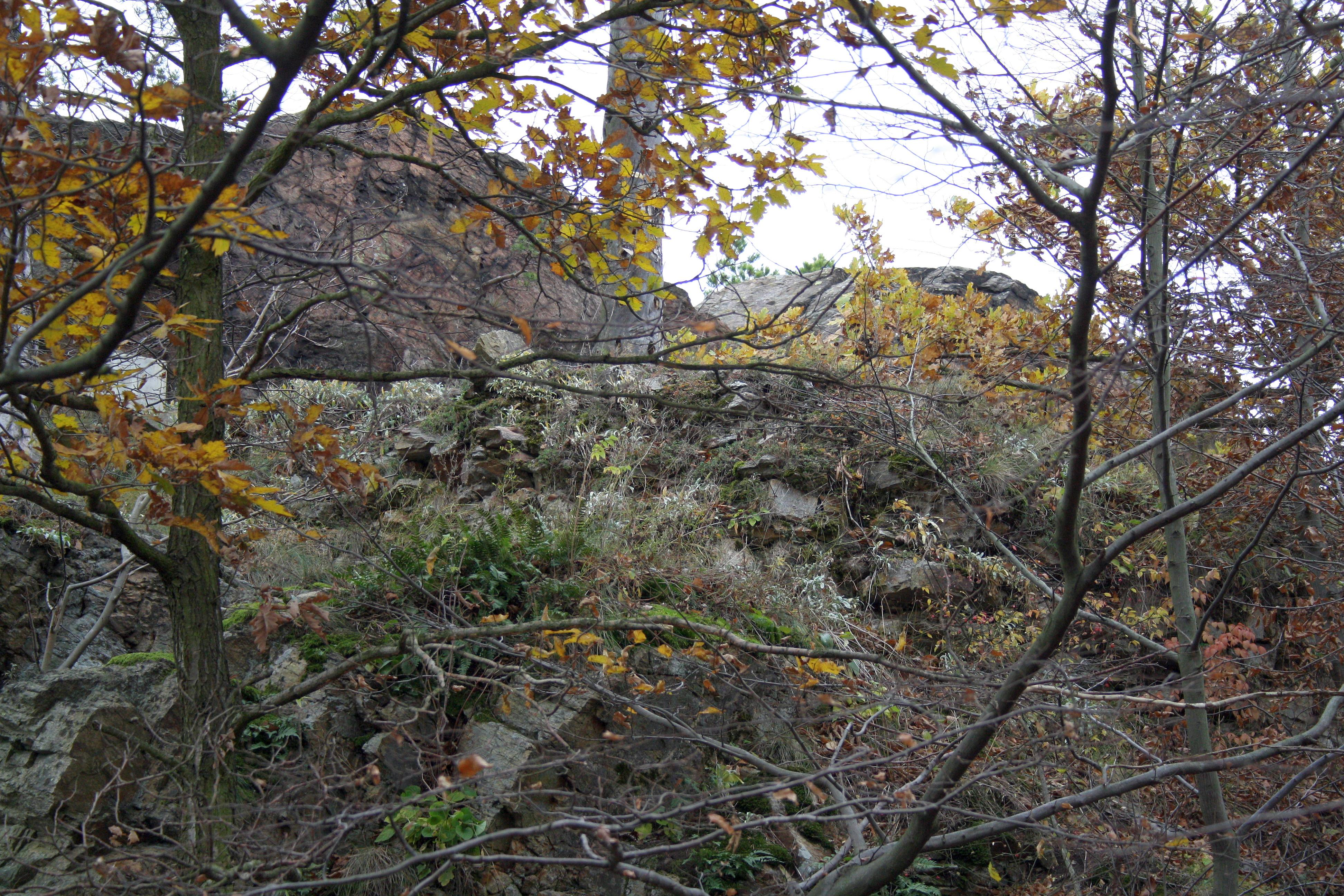 Ruins of Kozlov Castle on Kozlov island.